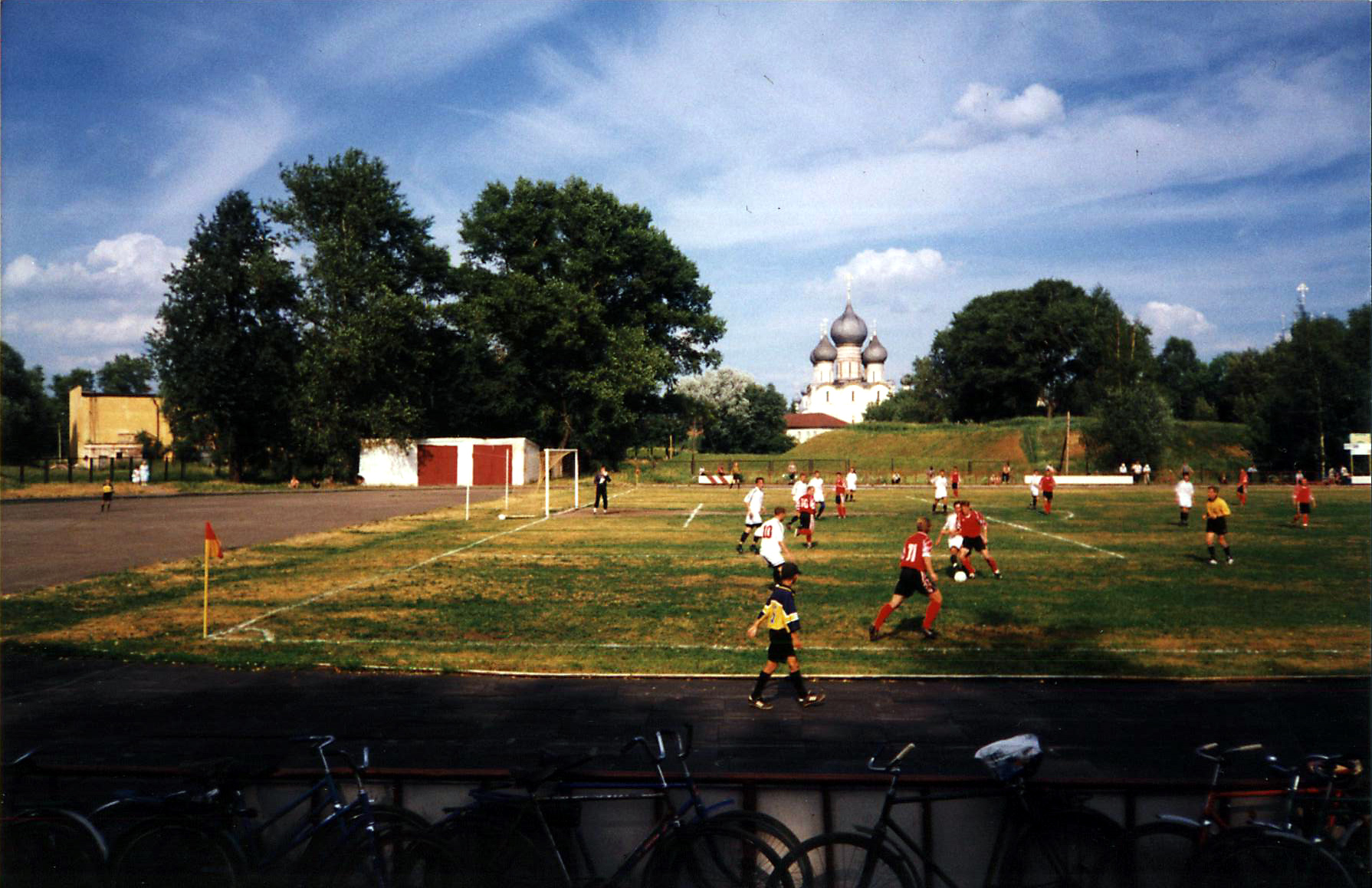 FC Neftyanik Yaroslavl - FC Torpedo-2 Moscow. Rostov, Spartak Stadium, 1999.